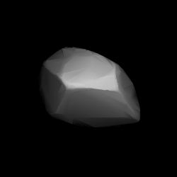 3D convex shape model of 1127 Mimi, computed using light curve inversion techniques. J. Hanuš, J. Ďurech, M. Brož, B. D. Warner (June 2011). "A study of asteroid pole-latitude distribution based on an extended set of shape models derived by the lightcurve inversion method". Astronomy and Astrophysics 530: A134. ISSN 0004-6361. arXiv